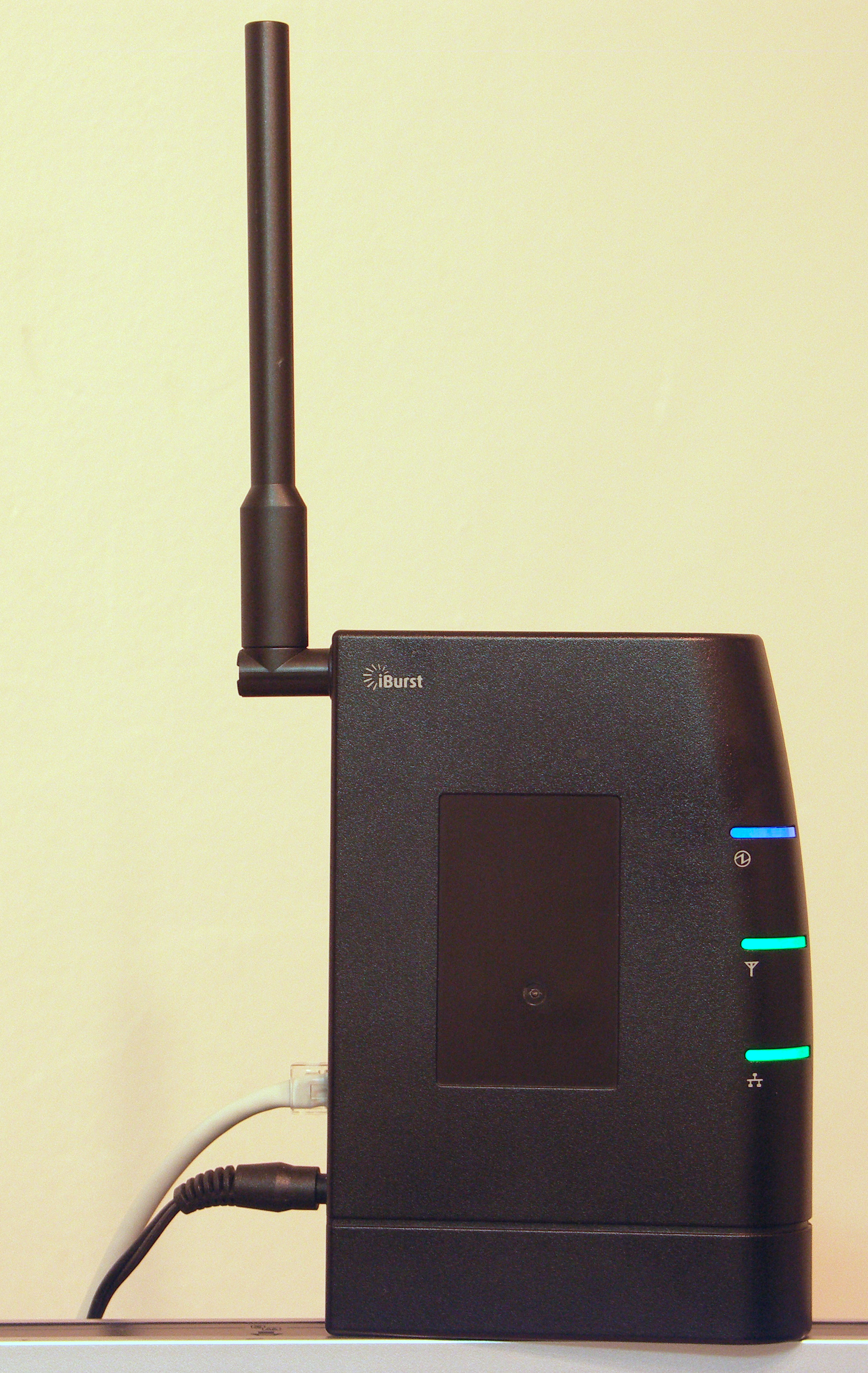 An iBurst desktop modem manufactured by Kyocera